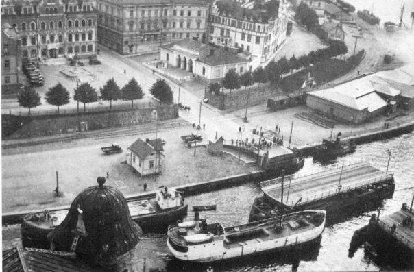 Linnan (Krepostnoy) bridge opening